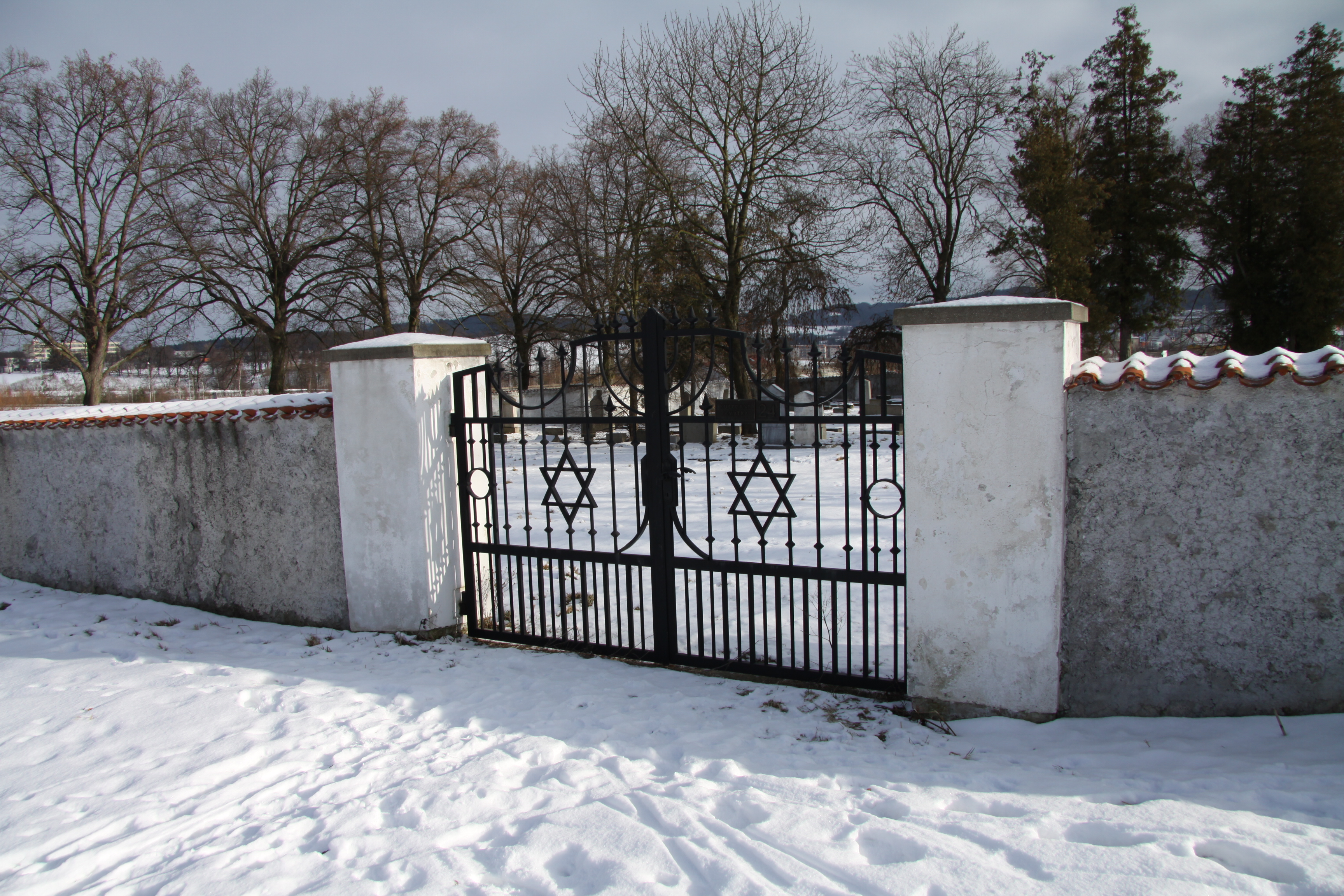 Newer jewish cemetery in Písek, Písek District, Czech Republic